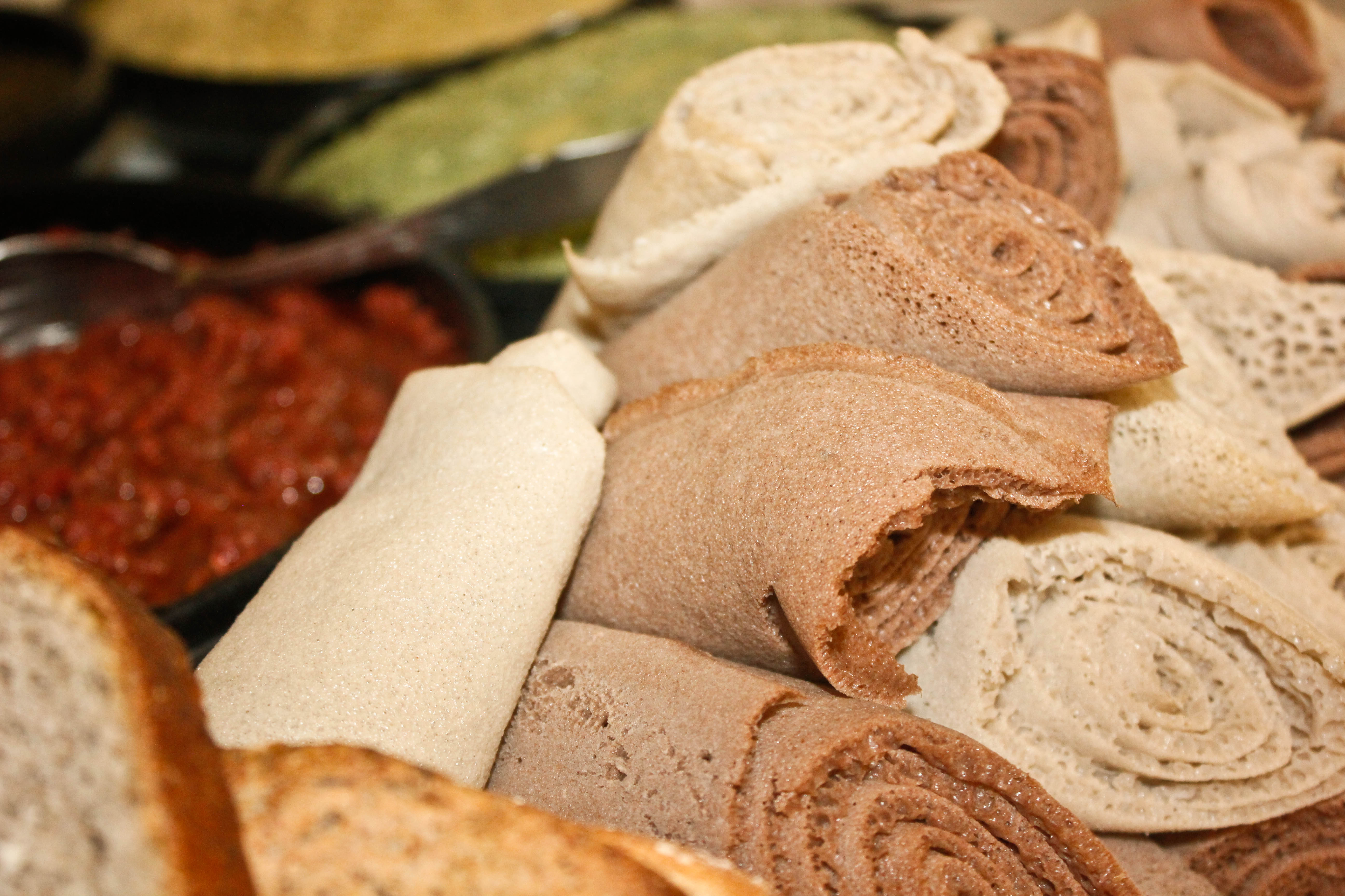 Injera - the national staple food of ethiopia. This is an image of food from Ethiopia